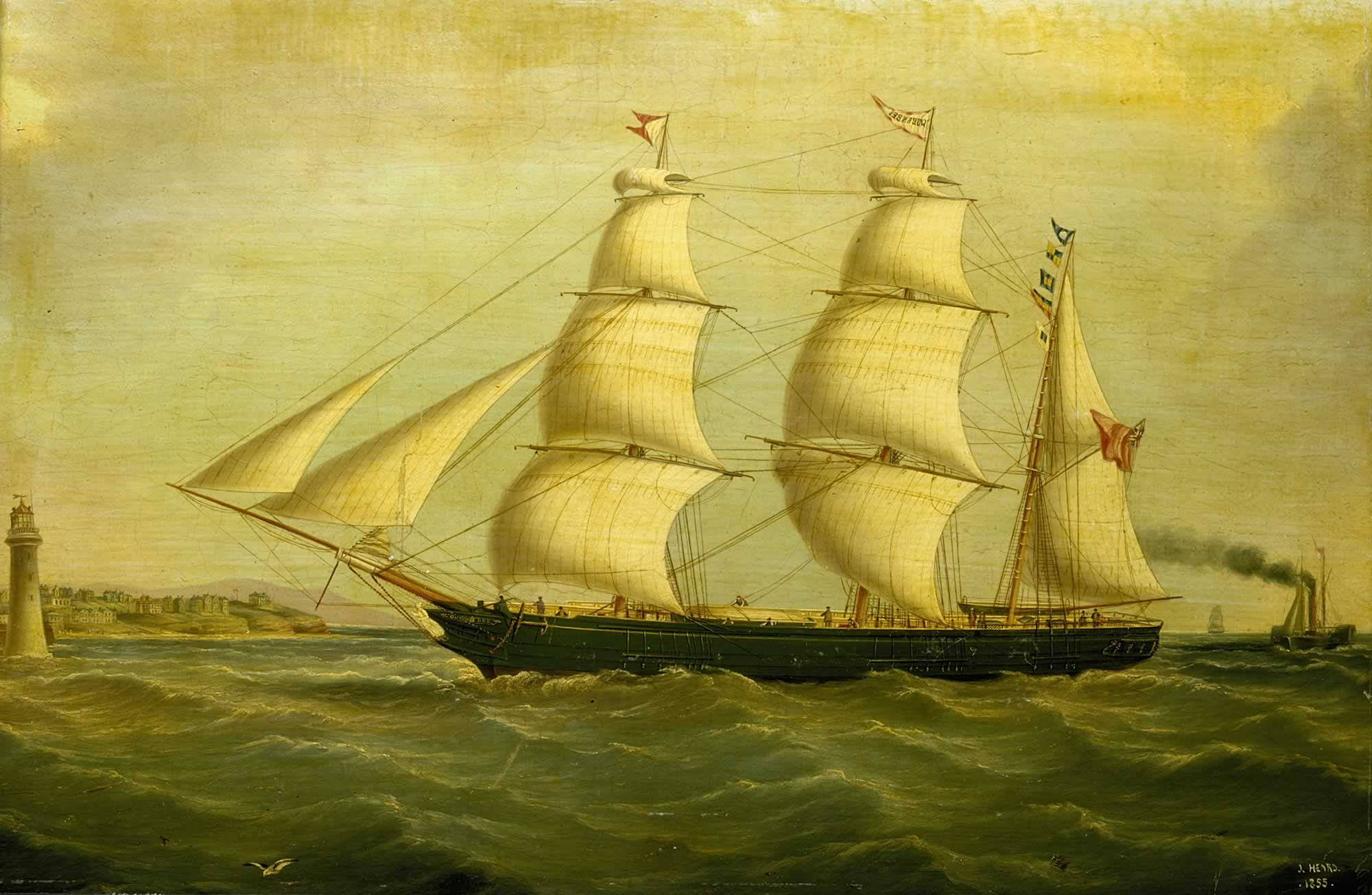 A portrait of the barque ‘Queen Bee', shown broadside-on. The ship flies the flag with her name on the main mast. A lighthouse and coastal scene with houses can be seen in the distance on the left. There is other shipping in the painting, including a steamship billowing smoke on the right. Built in 1852 in Sunderland, the ‘Queen Bee’ was a full rigged 3-masted Barque with a wooden hull. She was registered in Dumfries, Scotland, and in 1857 the wooden hull was apparently sheathed in ‘felt and yellow metal’. The painting has been signed and dated by the artist ‘J. Heard 1855’.